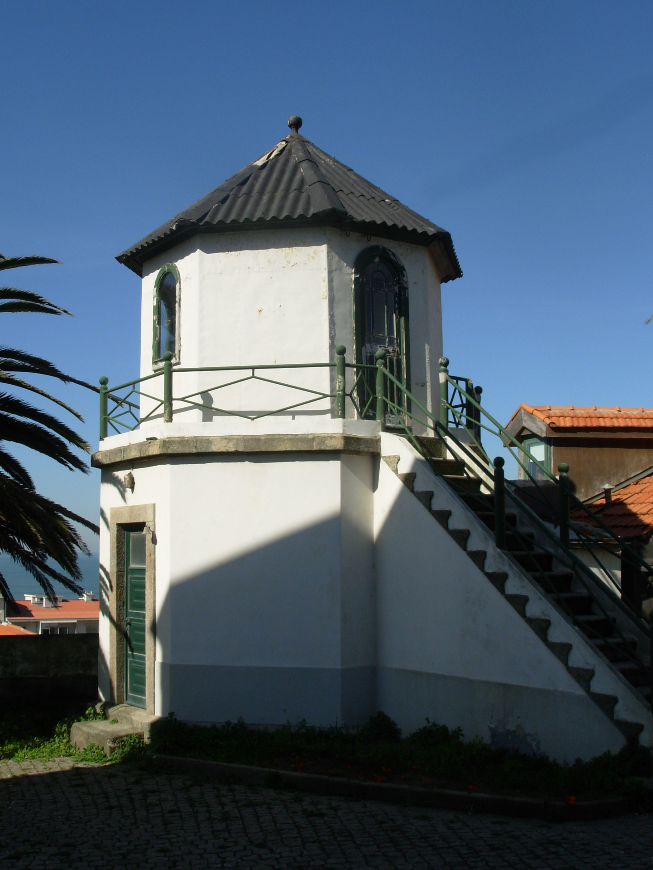 Senhora da Luz Lighthouse, octogonal tower, in freguesia de Foz do Douro, Oporto, Portugal